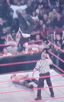 work created by me